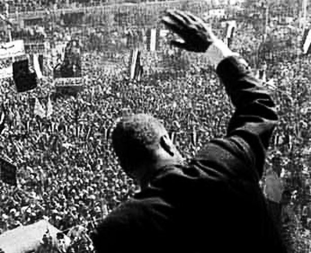 Nasser addressing crowds in Damascus, Syria during the United Arab Republic period.